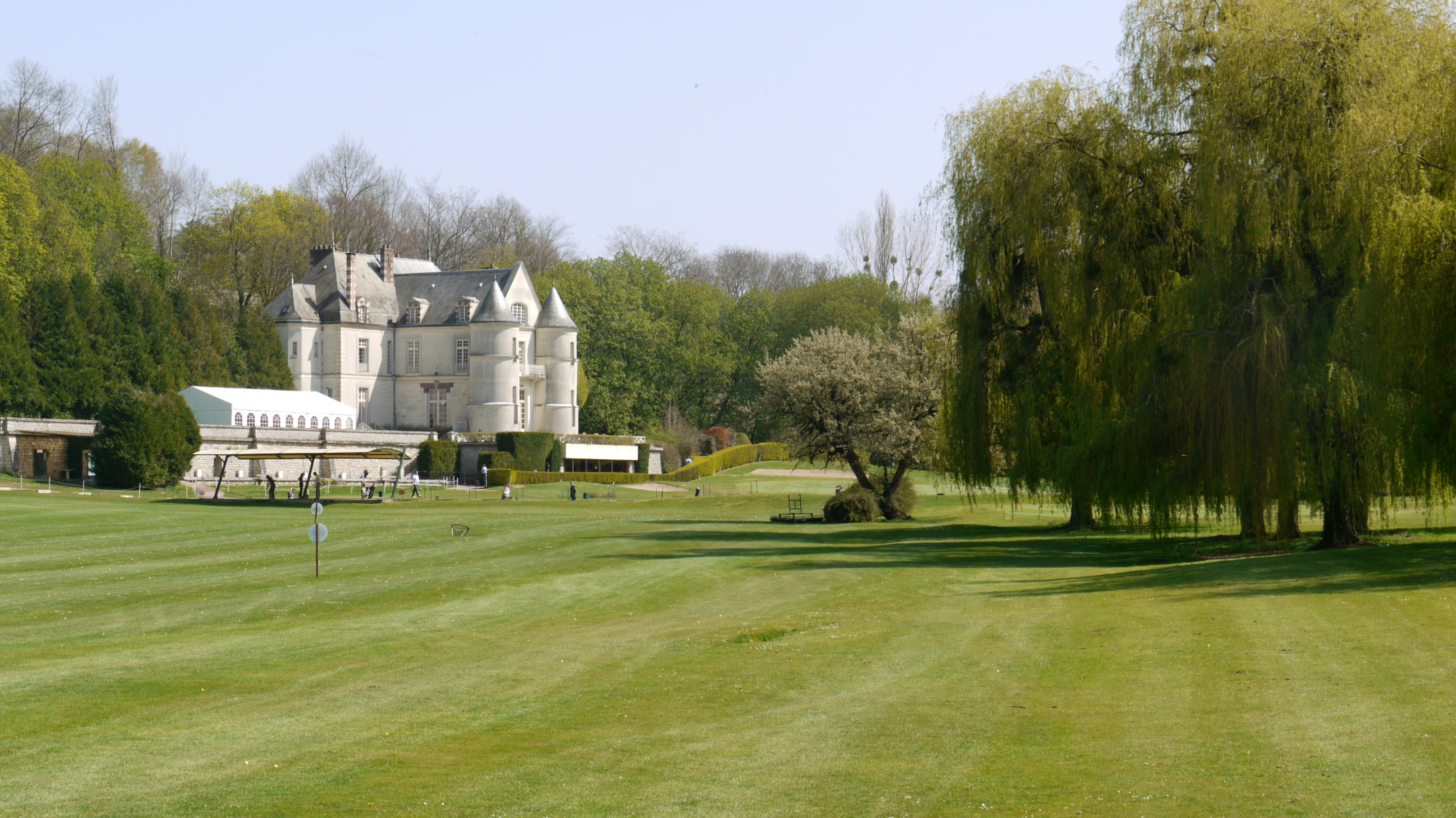 Le château du Couvent construit en 1524 par le seigneur de Villarceaux à l'emplacement à l'emplacement de l'ancien couvent des bénédictines de Sainte-Madeleine, fondé en 1160 par le roi Louis VII et ruiné par les Anglais en 1432. C'est aujourd'hui le club-house du golf de Villarceaux, commune de Chaussy, Val d'Oise, France.